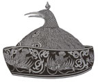 Raven Crown worn by the father of the first King of Bhutan. Warrior Hat in the form of helmet.